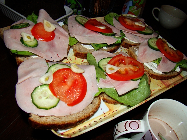 food